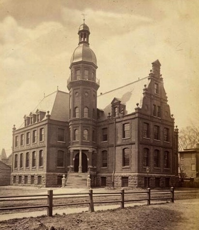 Picture of the old Sloane Physical Laboratory, at Yale University, as it stood on Library Street between 1882 and 1931, at the current site of Jonathan Edwards College.